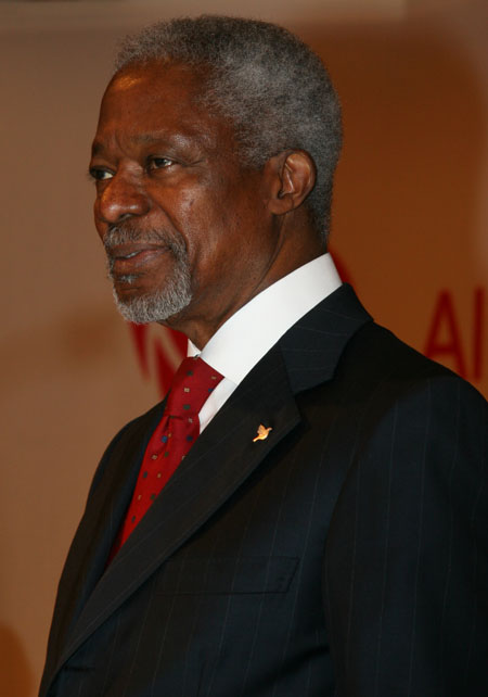 Kofi Annan. Former United Nations Secretary-General. Photo is taken at the national convention of the Norwegian Labour Party, 2007.